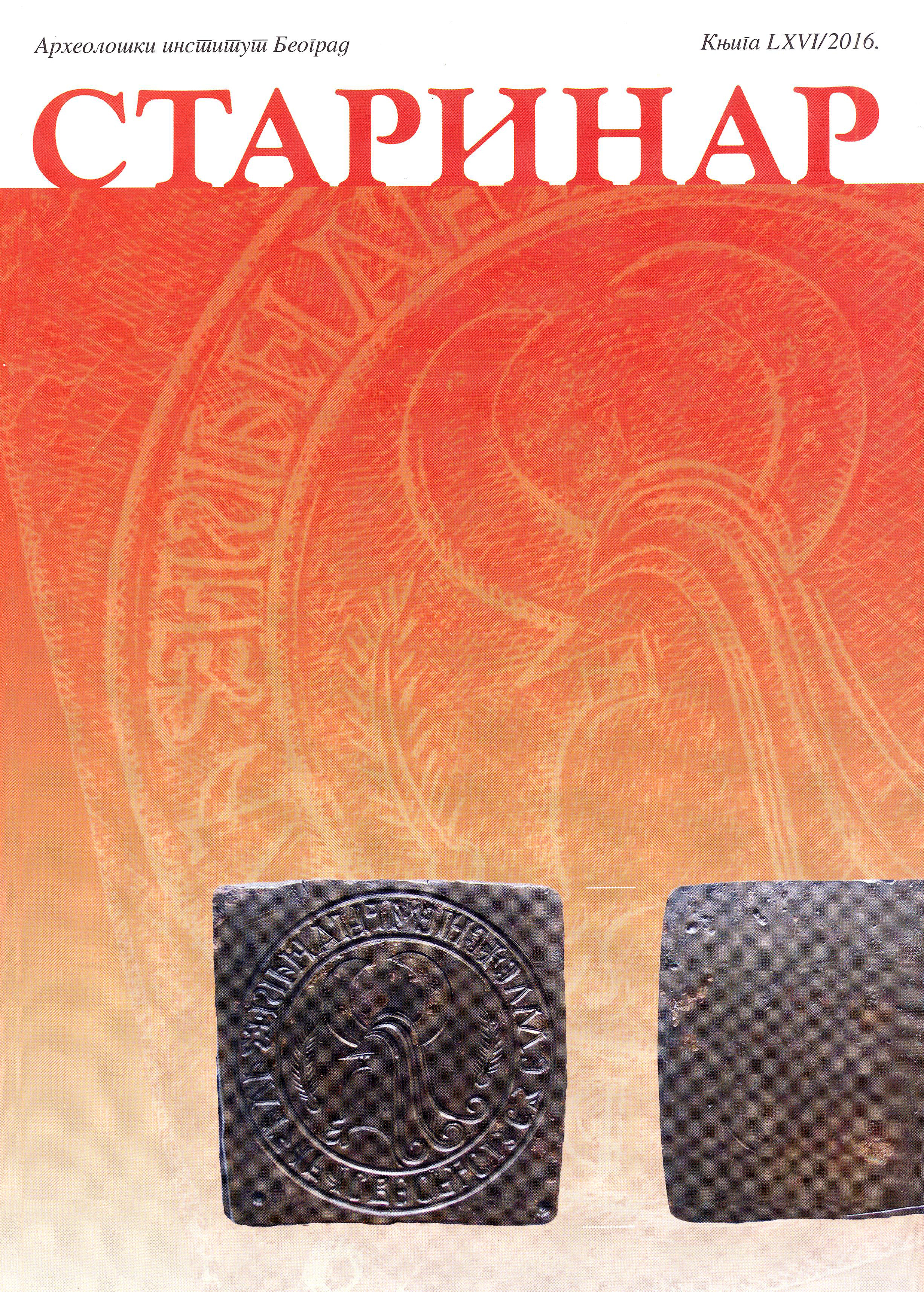 Cover of Starinar (journal) from the year 2016 Српски (ћирилица): Насловна страна часописа Старинар из 2016. године